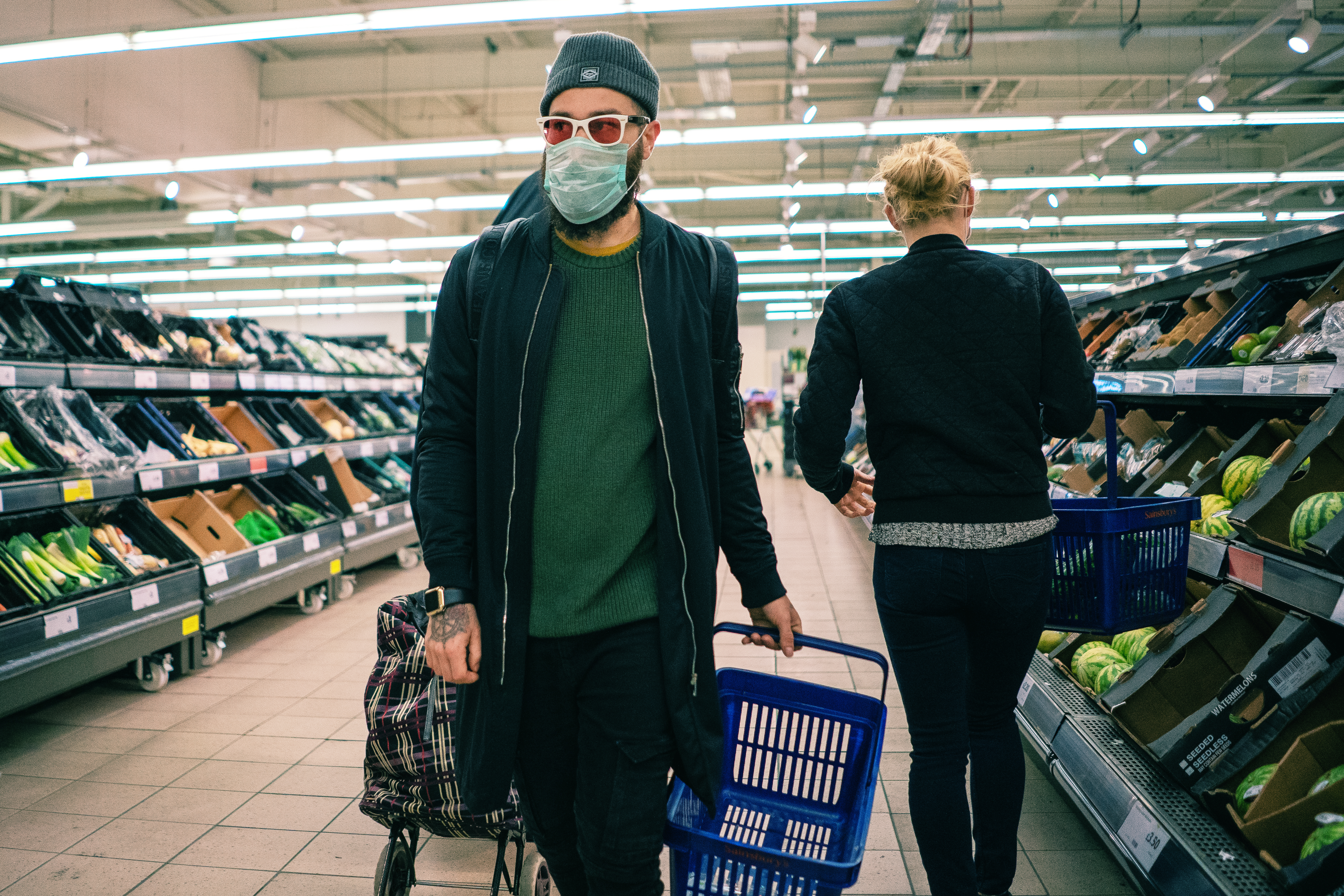 Shopper wearing a face mask due to the Coronavirus pandemic.